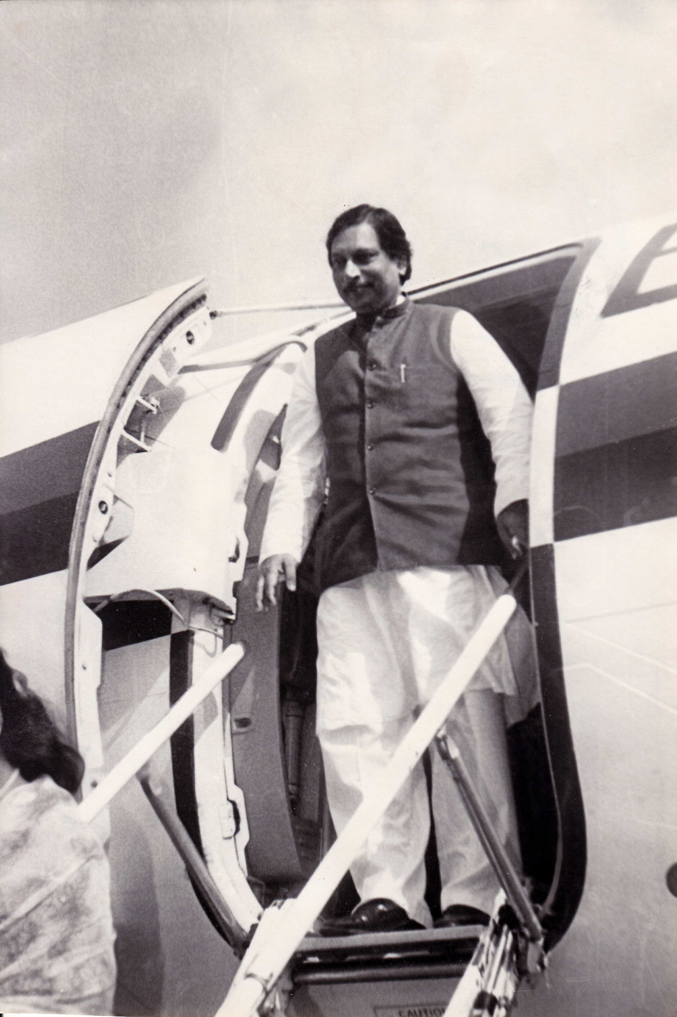 Prof. Dr. Abu Sayeed in an Offical Visit to Rajshahi 24 November, 1996.